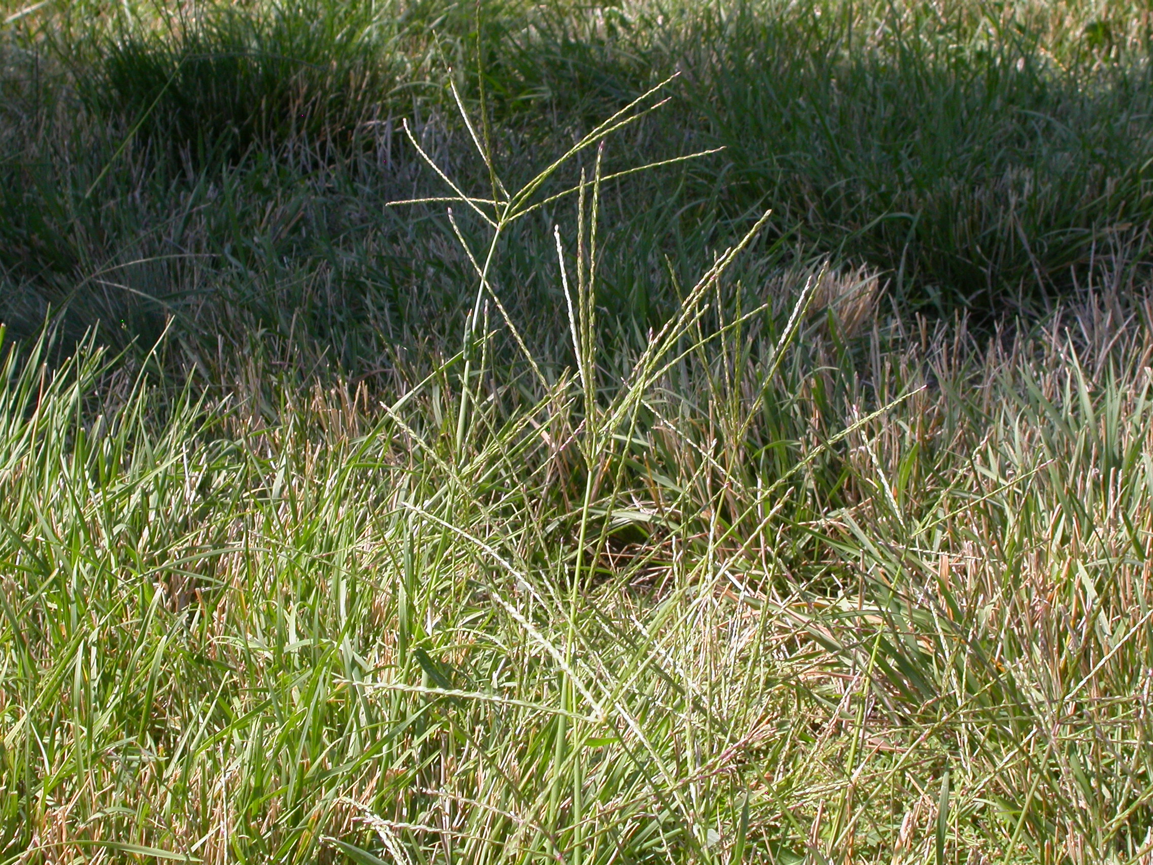 The inflorescence of Digitaria comprises digitately arranged spikes with spikelets in a secund arrangement.